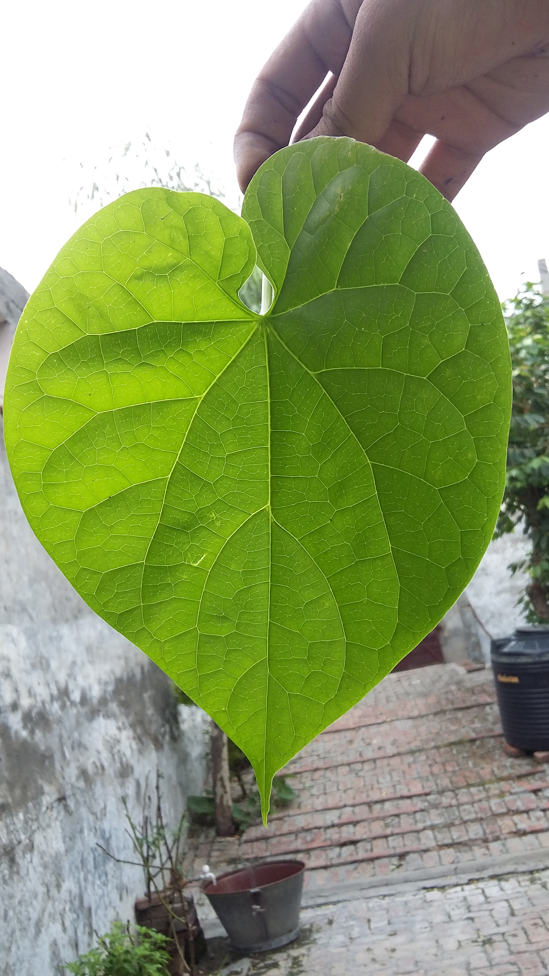 veins of leaves ਪੰਜਾਬੀ: ਪਤਿਆਂ ਦੀਆਂ ਨਾੜੀਆਂ